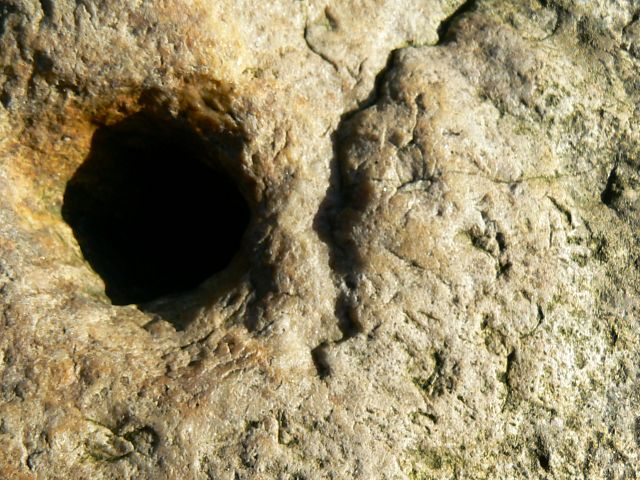 Blowing hole of the Blowing Stone blow hole, Kingston Lisle, Oxfordshire (formerly Berkshire). The hole is about 25mm in diameter.